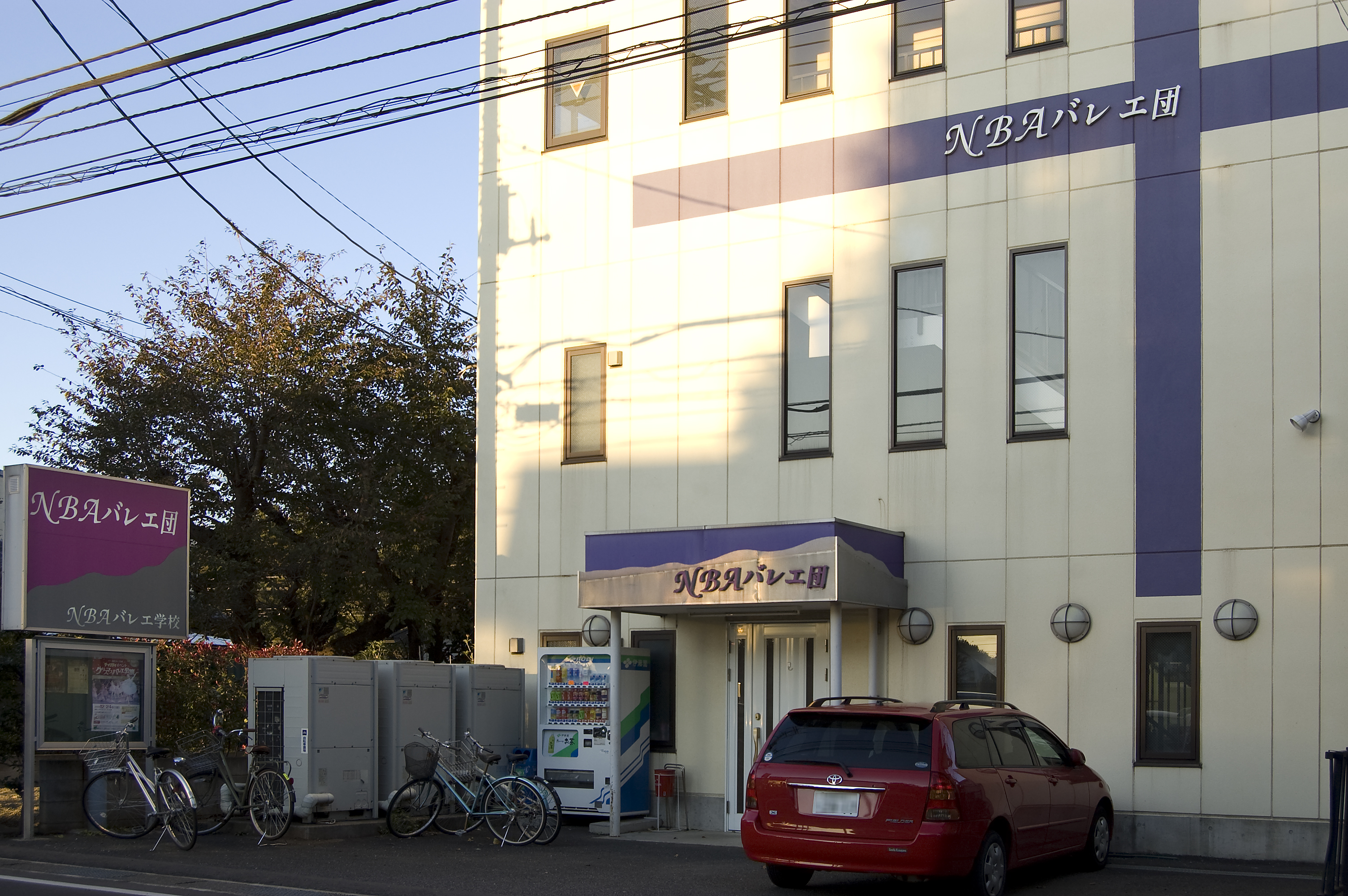 NBA Ballet Company in Tokorozawa, Saitama pref., Japan.